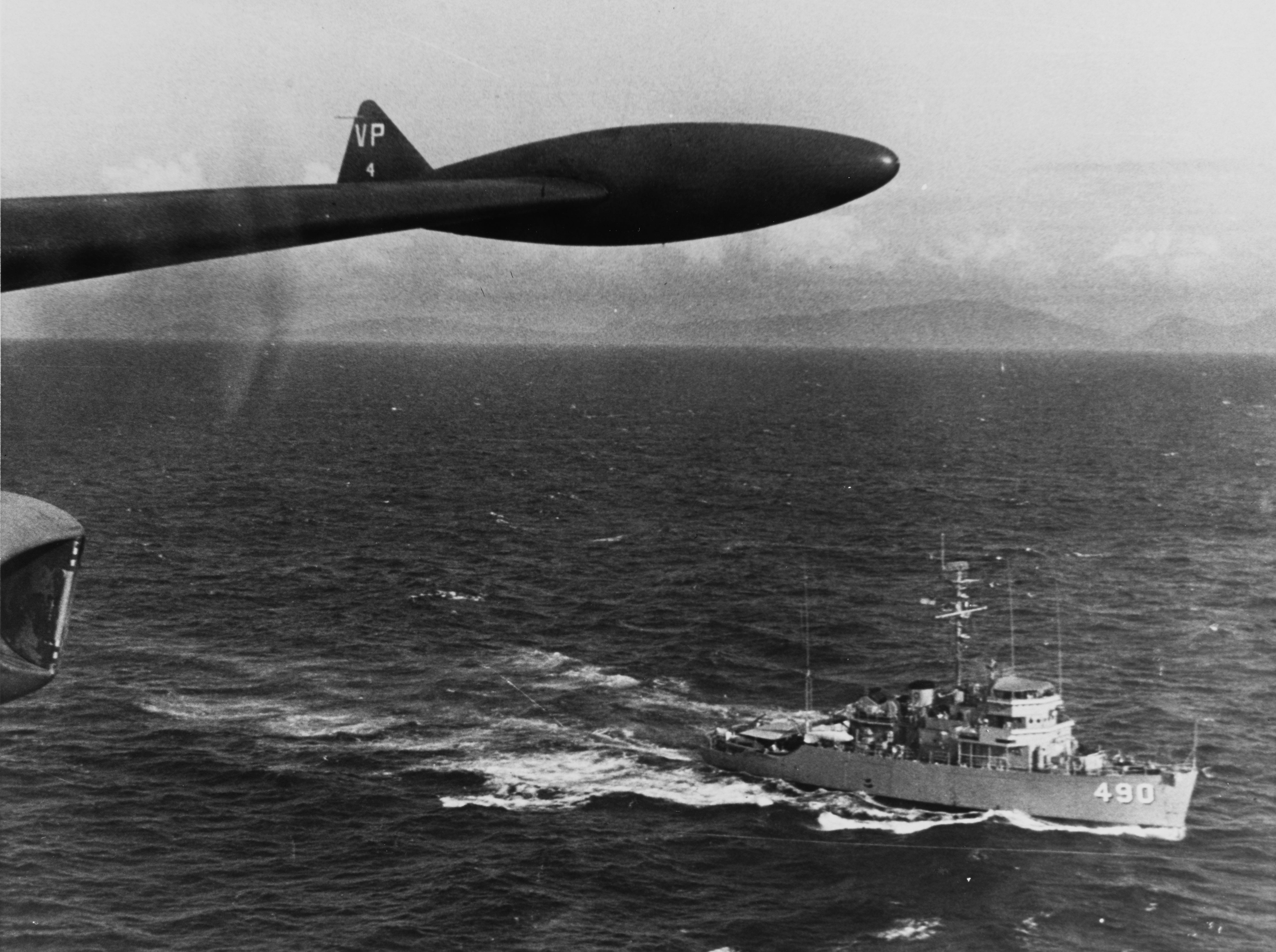 The U.S. Navy minesweeper USS Leader (MSO-490) seen from a Lockheed SP-2H Neptune from Patrol Squadron 4 (VP-4) on patrol off the coast of Vietnam, circa 1965. VP-4 began a splitsite deployment to Marine Corps Air Station Iwakuni, Japan, with detachments at various dates located at Naval Air Facility Tan Son Nhut, Vietnam; Naval Station Sangley Point and Naval Air Station Cubi Point, Philippines, in March 1965.